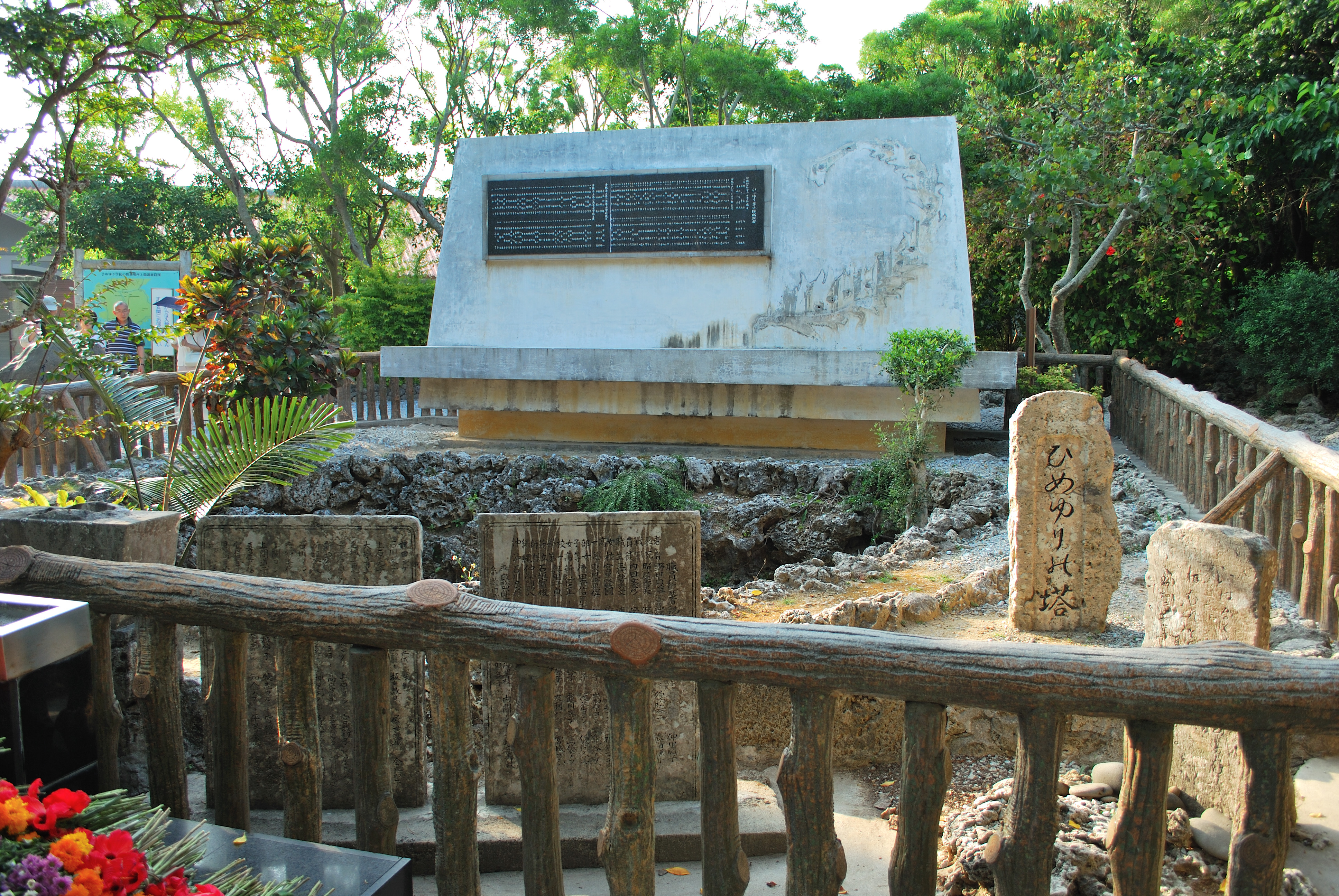 The Tower of Himeyuri